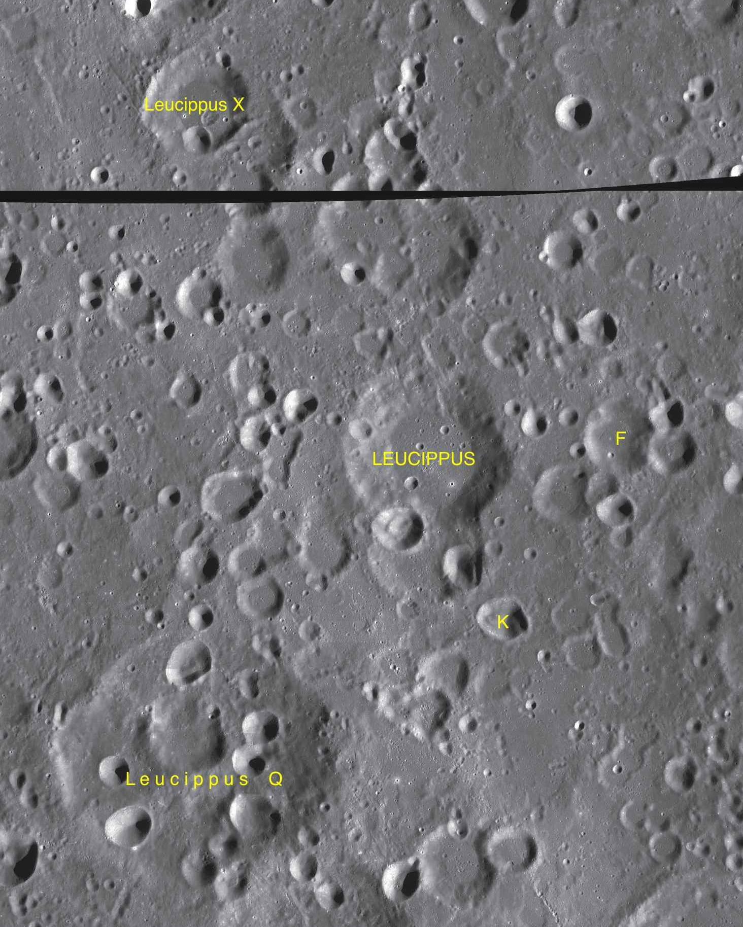 Parts of the charts LAC-35, LAC-53 used for the presentation